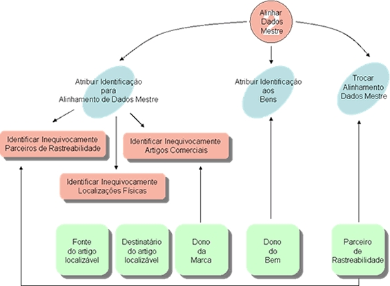 own work